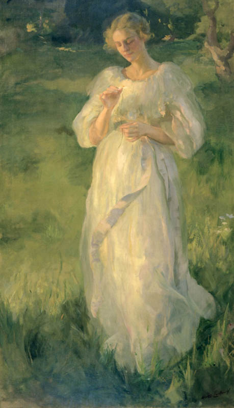 "He Loves Me, He Loves Me Not"